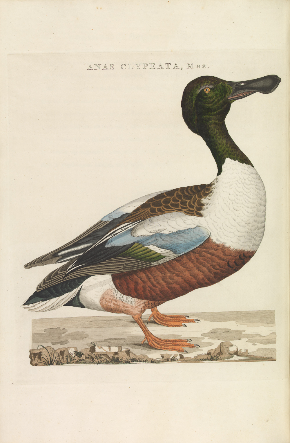 Plate 130 from the Nederlandsche vogelen by Nozeman and Sepp.